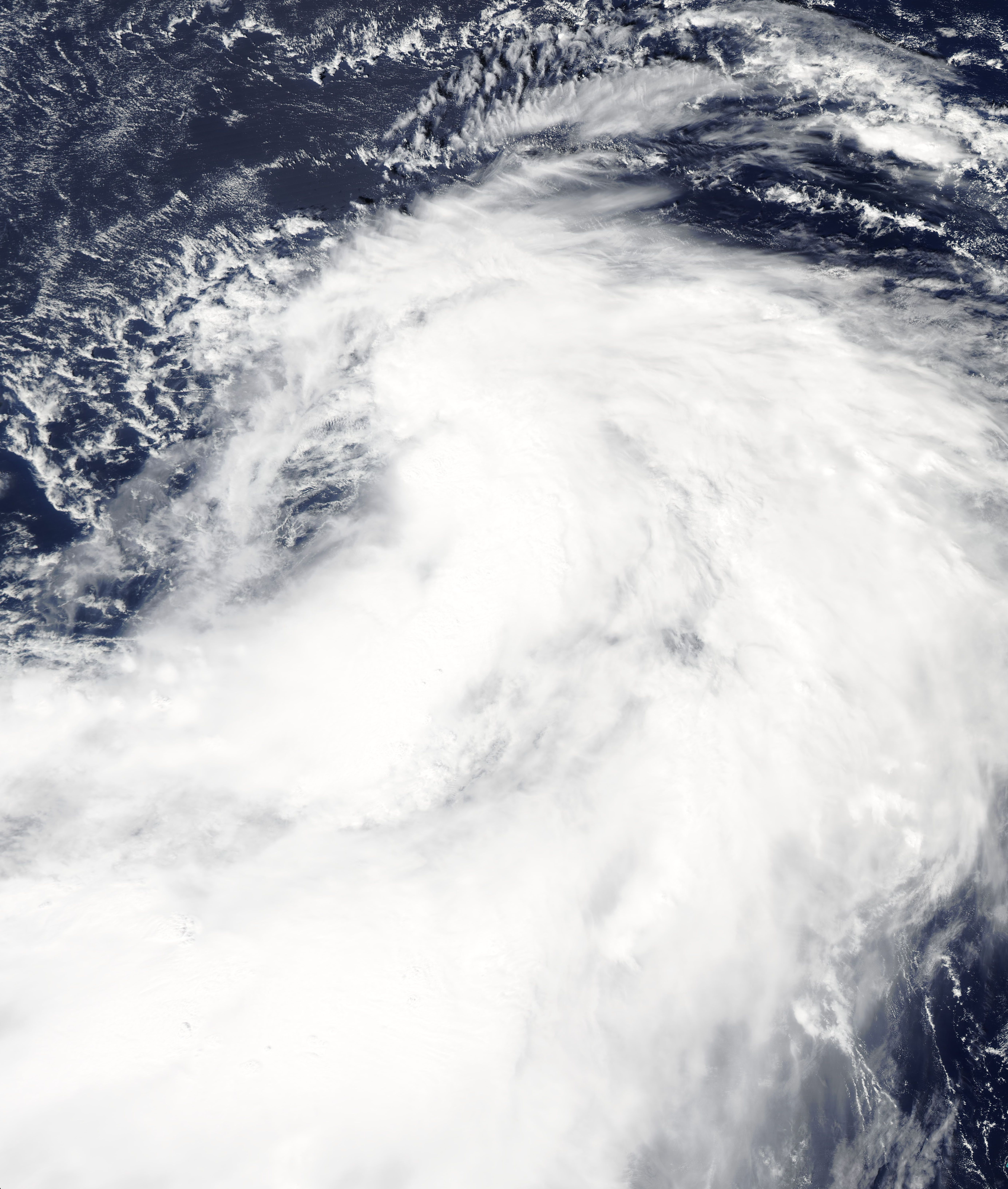 TS 0617 RUMBIA MODIS (Aqua) image from 03Z on 2006-10-03.